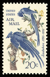 April 26, 1967 20¢ Multicolored “Columbia Jays” Scott #C71